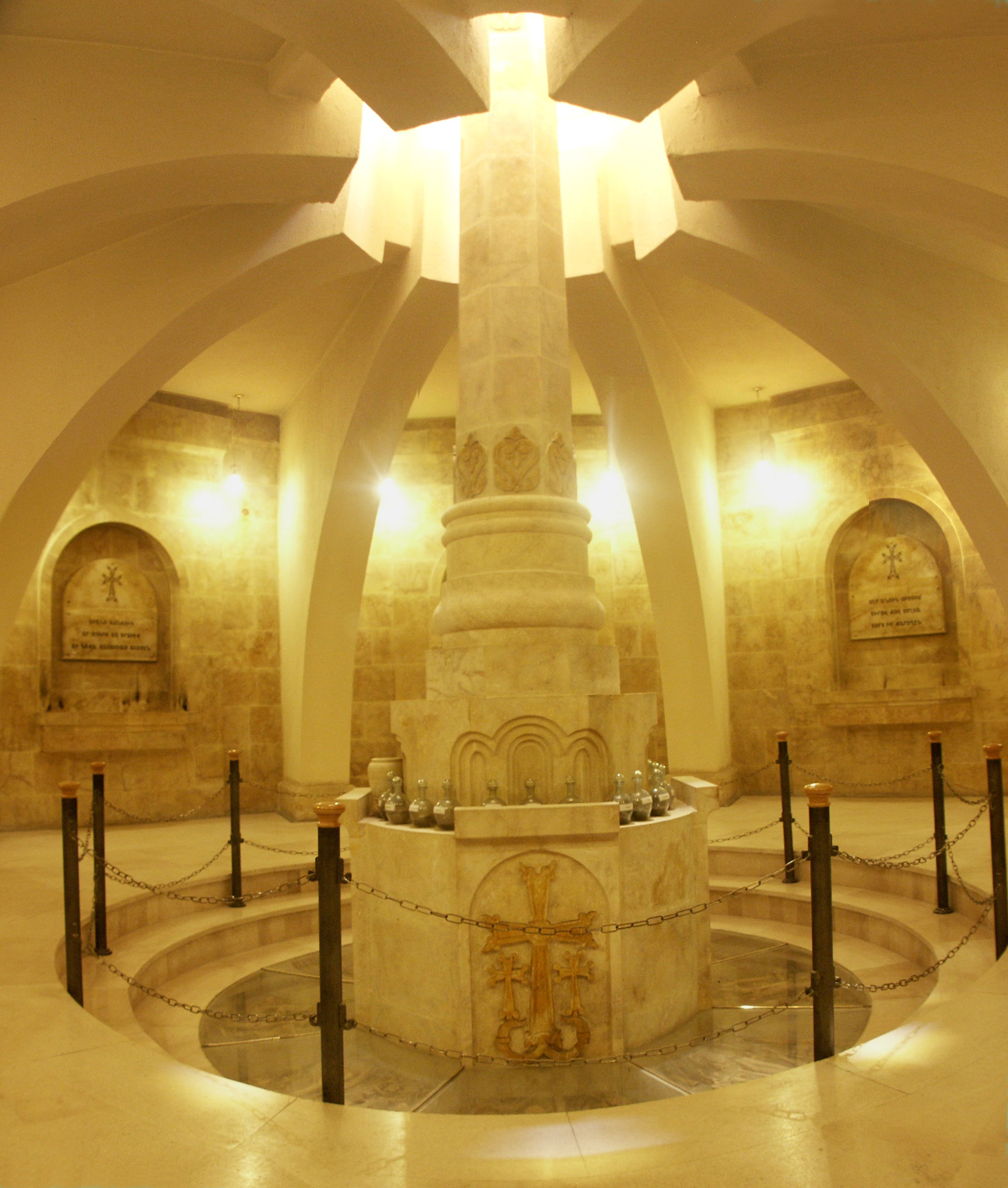 The Armenian Genocide museum in Der Zor, Syria, location of a major Ottoman extermination site for Armenians.